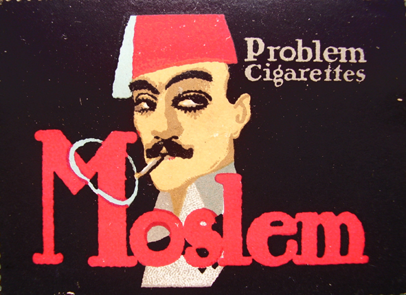 Poster related to Mahala-Problem-Cigarettes, author Hans Rudi Erdt (* 1883 - † 1925), around 1908